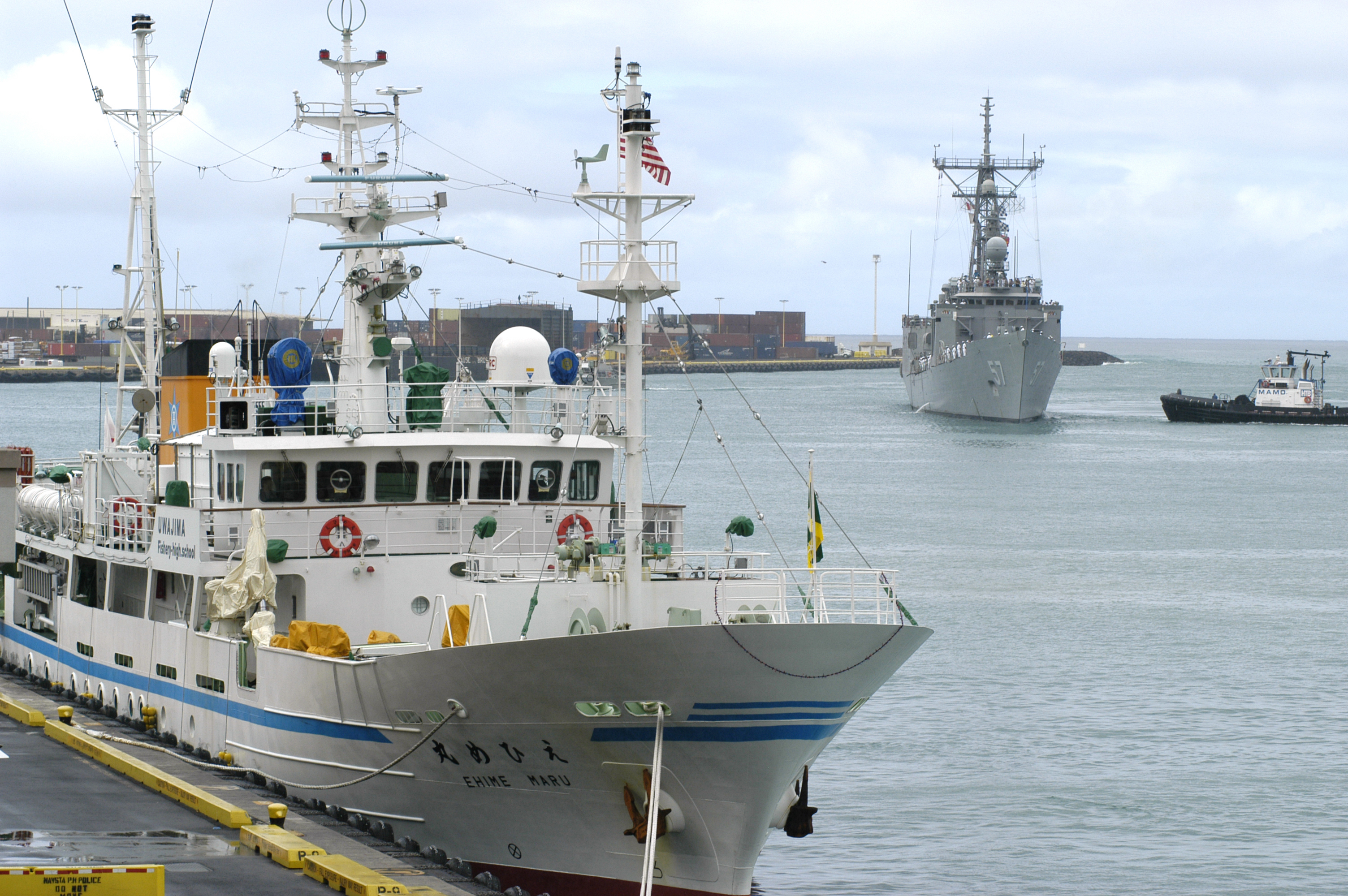 Honolulu, Hawaii (Jun. 18, 2003) -- The guided missile frigate USS Reuben James (FFG 57) prepares to pass the new Japanese fishing training vessel Ehime Maru while pulling in to Honolulu, Hawaii. Reuben James and the guided missile destroyer USS Hopper (DDG 70) pull into Honolulu, Hawaii for a short port visit to The Aloha Tower Marketplace in support of this year's Navy League Convention. U.S. Navy photo by Photographer's Mate 2nd Class Dennis Cantrell. (RELEASED)